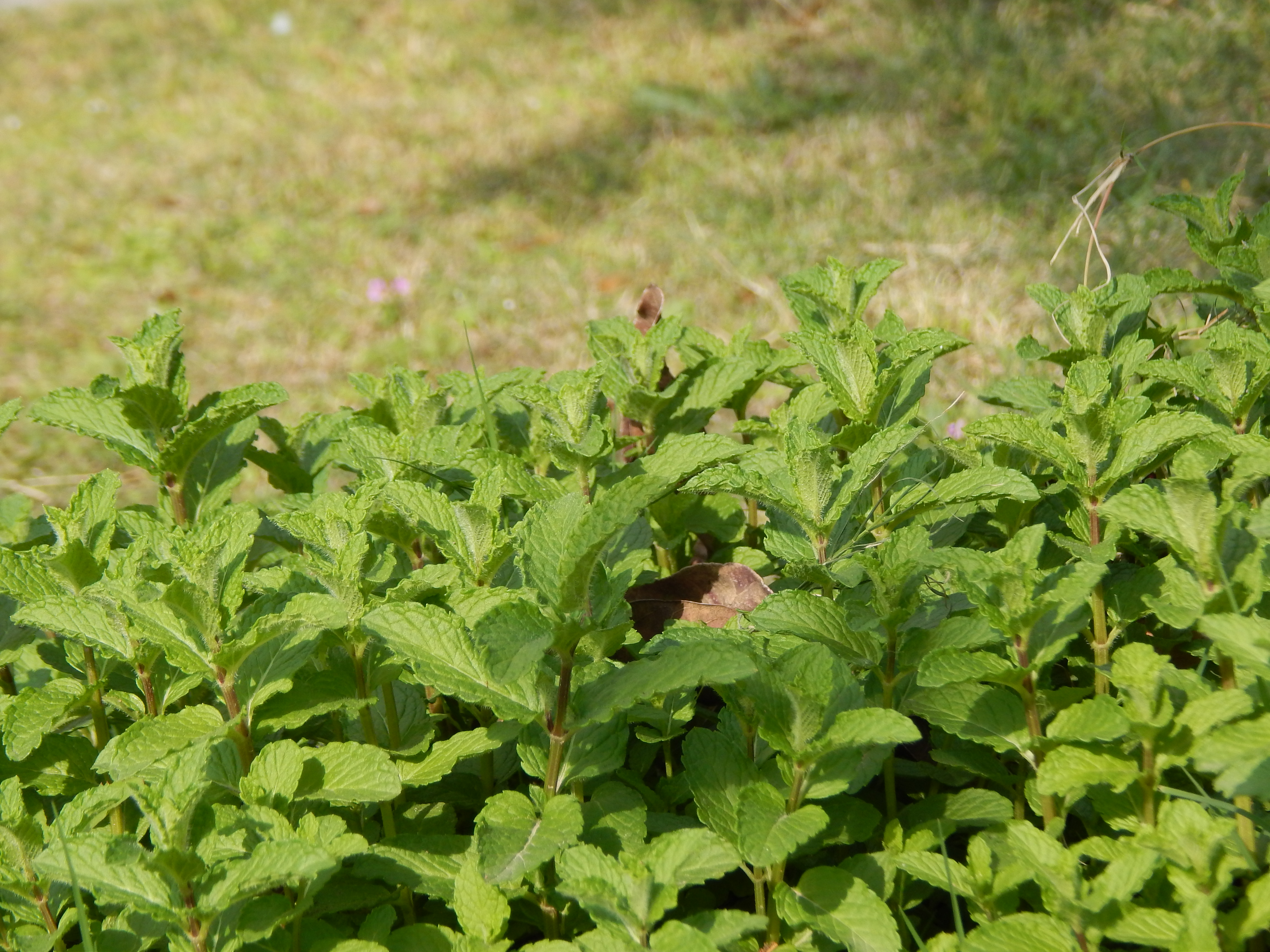 Pudina - Mentha spicata in an Indian kitchen garden.